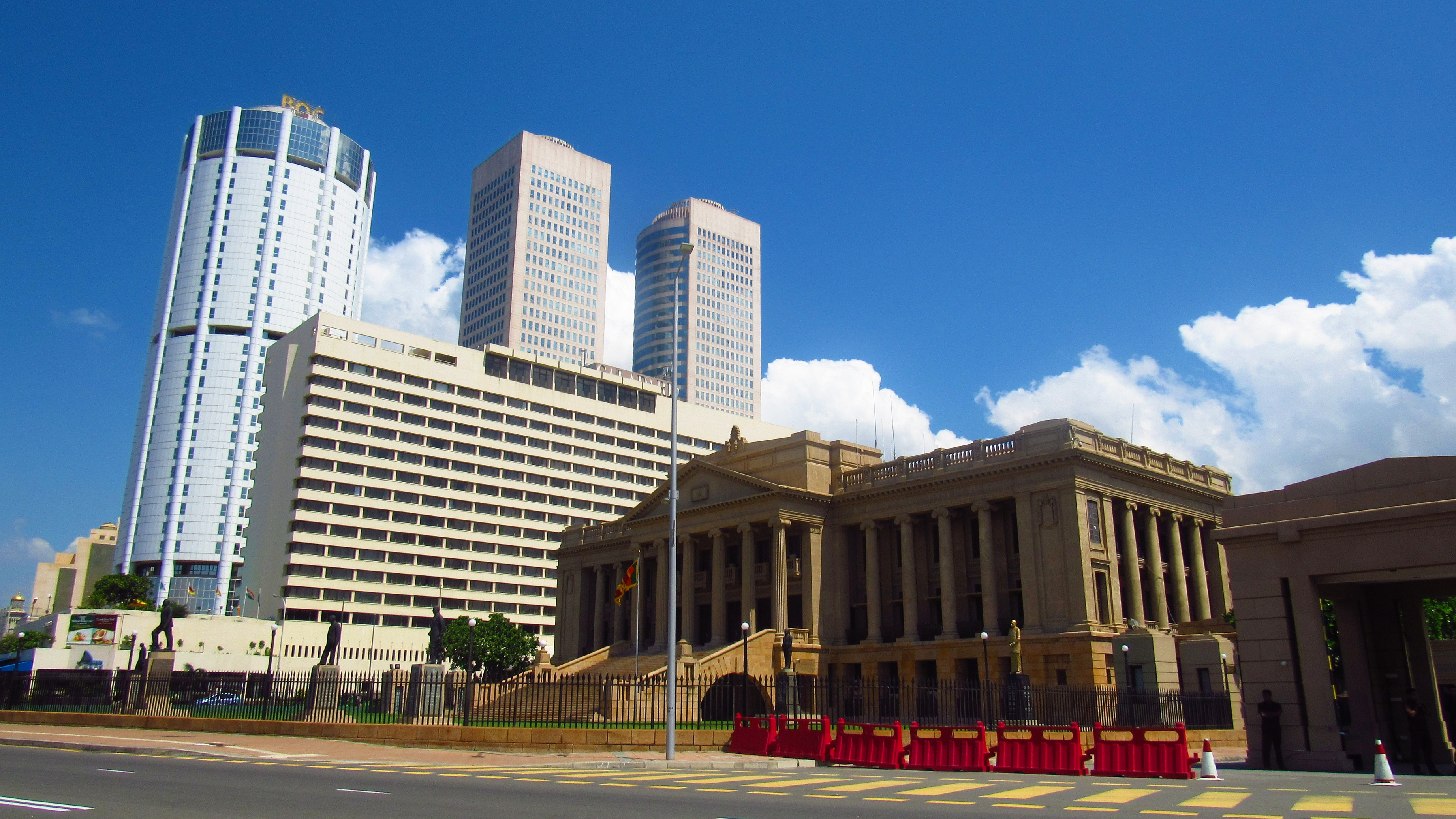 The Old Parliament Building in Colombo, Sri Lanka